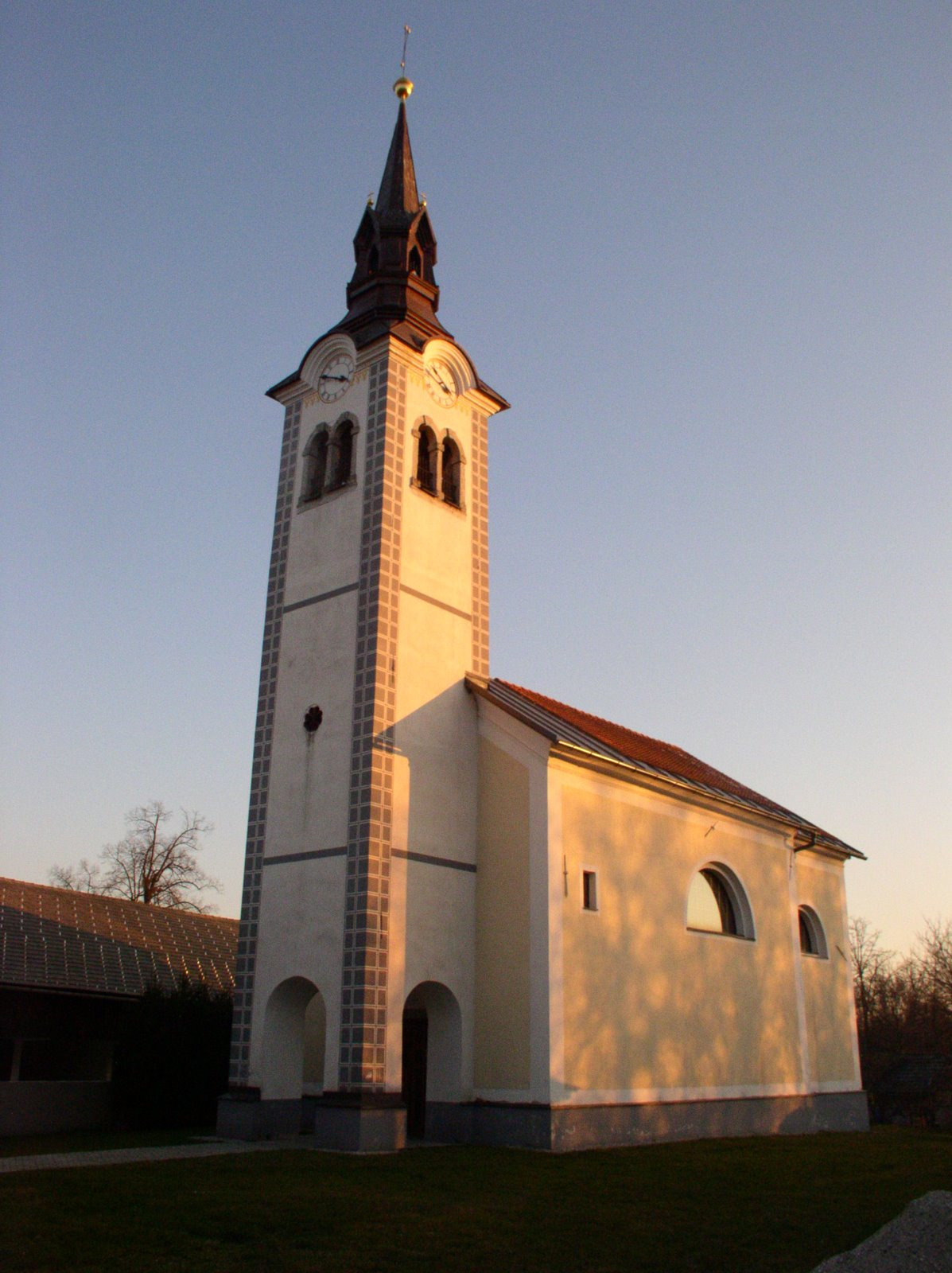 Holy cross church, Prebačevo